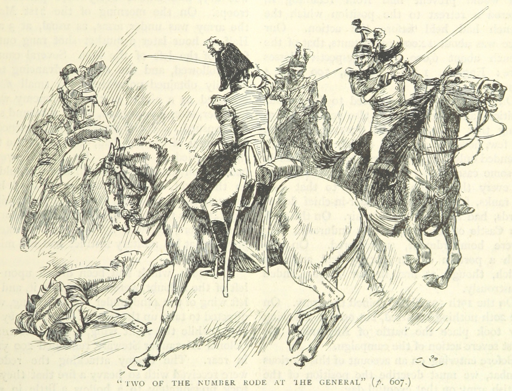 Ralph Abercromby fights two French dragoons at the 1801 Battle of Alexandria. Abercromby was mortally wounded in this battle and died a week later.